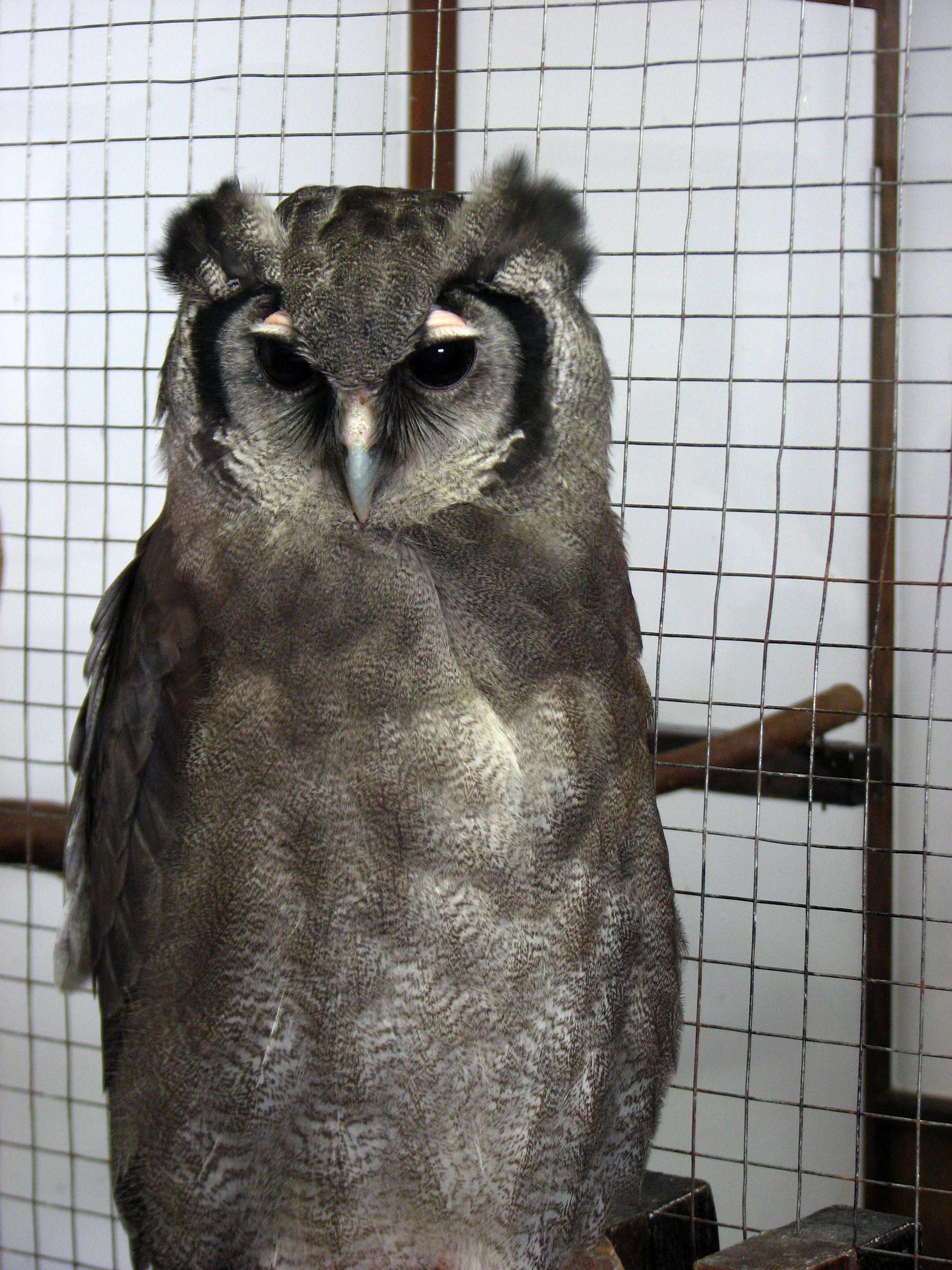 Verreaux's Eagle Owl (Bubo lacteus) Don't know who Verreaux was, but his owls are kind of intimidating. There was a couple off to the left that just liked to stare at children like they were all little mice. Taken in Kobe-shi, Hyogo Prefecture